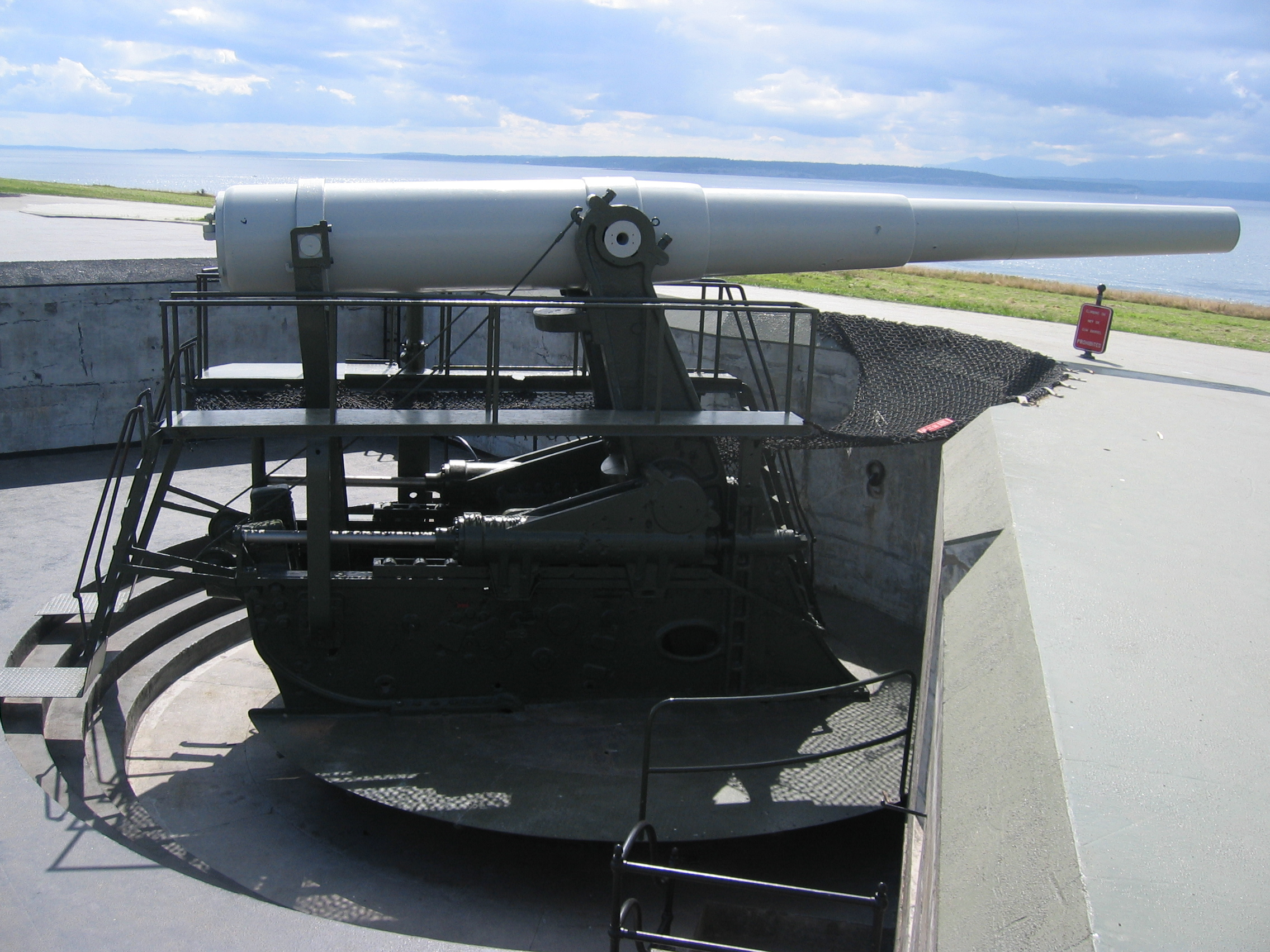 Photo of Fort Casey disappearing gun on Whidbey Island, Washington, USA.